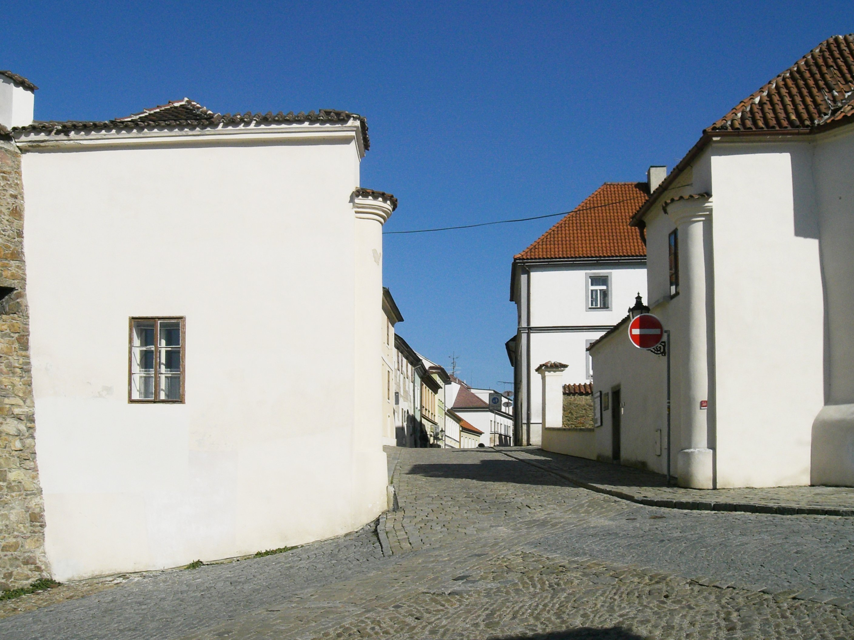 Putimská gate in Písek.